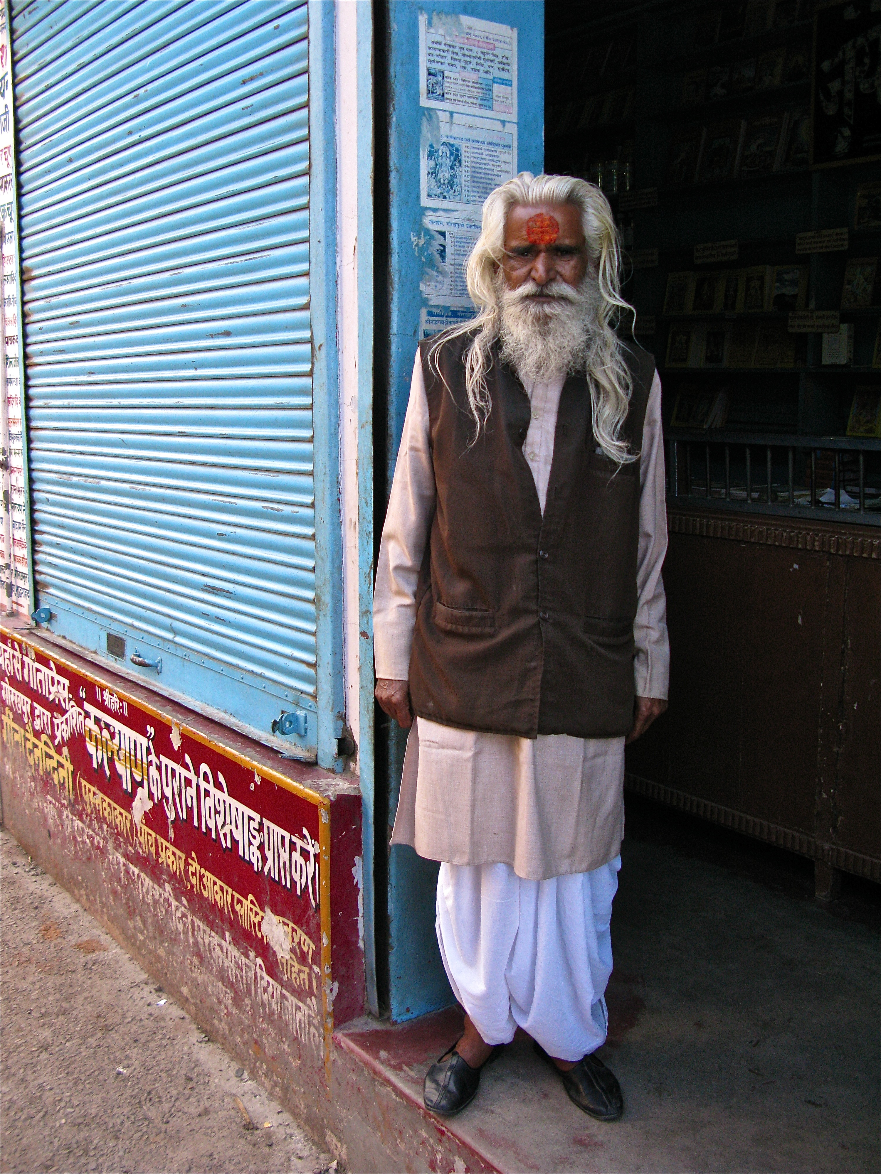 A man in traditional Indian attire of dhoti and an achkan over a kurta, in Rishikesh.